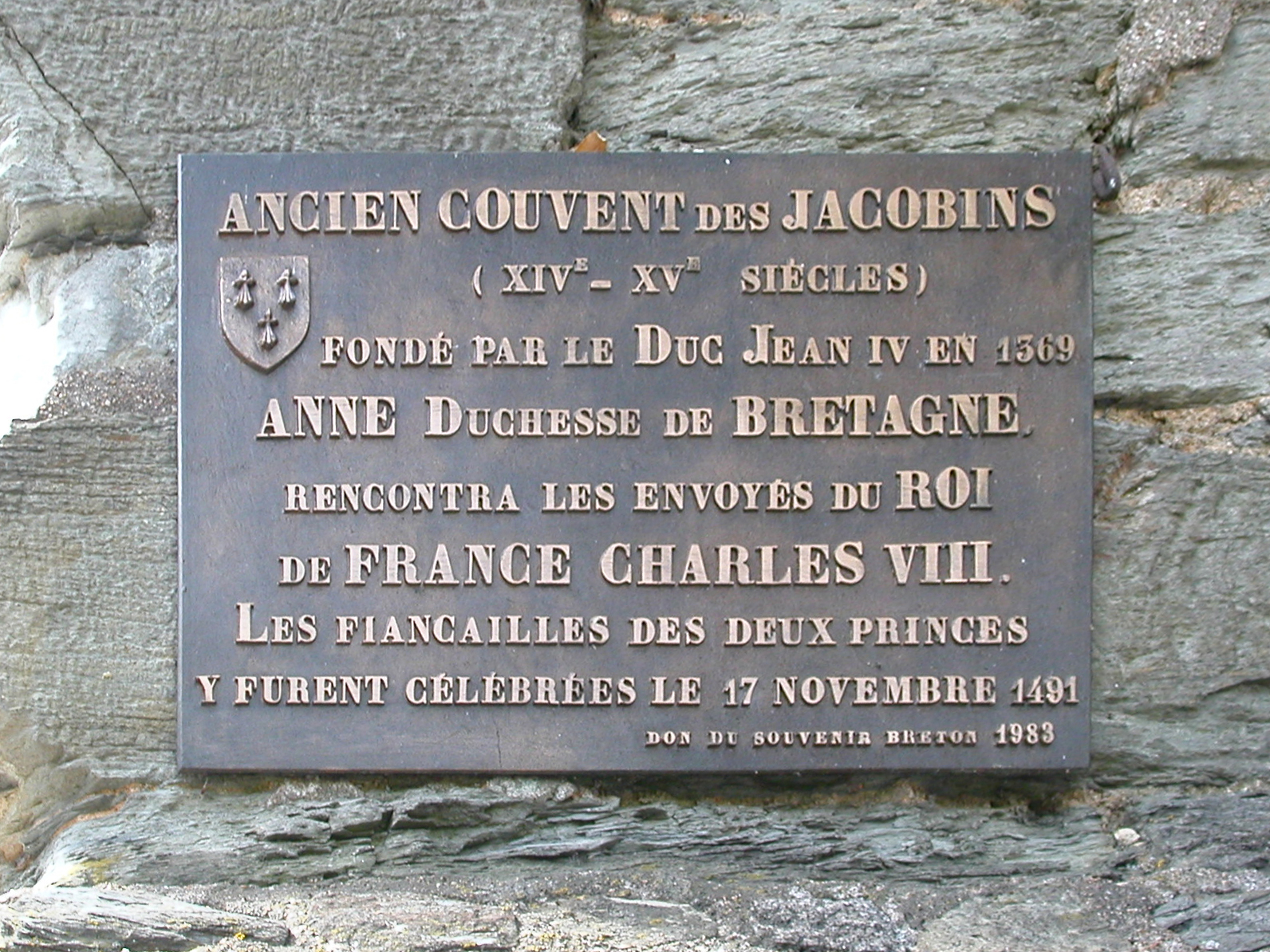 Plaque commemorating the engagement between Anne of Brittany and Charles VIII of France in the Jacobins convent of Rennes